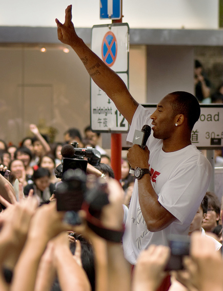 Kobe Bryant waving to crowd in Hong Kong.